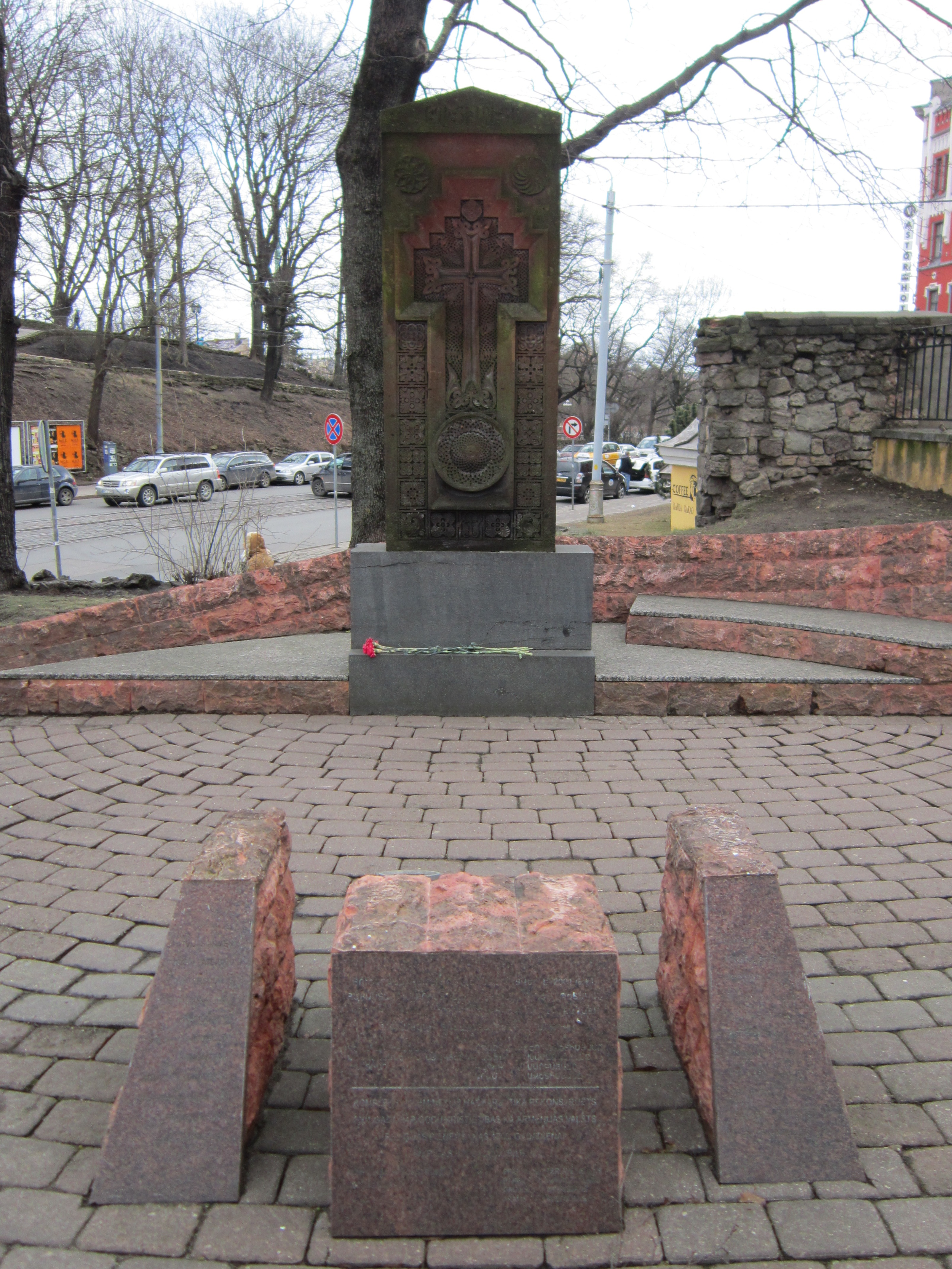 Armenian Genocide monument in Riga, Z. A. Meierovica blvd. Opened in 1990. Sculptor Samvel Muradyan